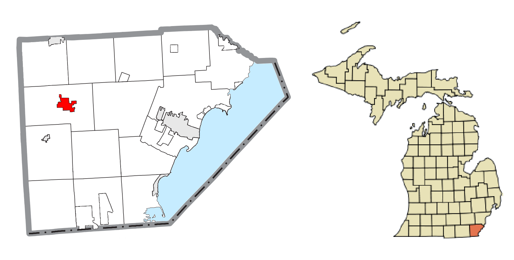 Dundee, MI